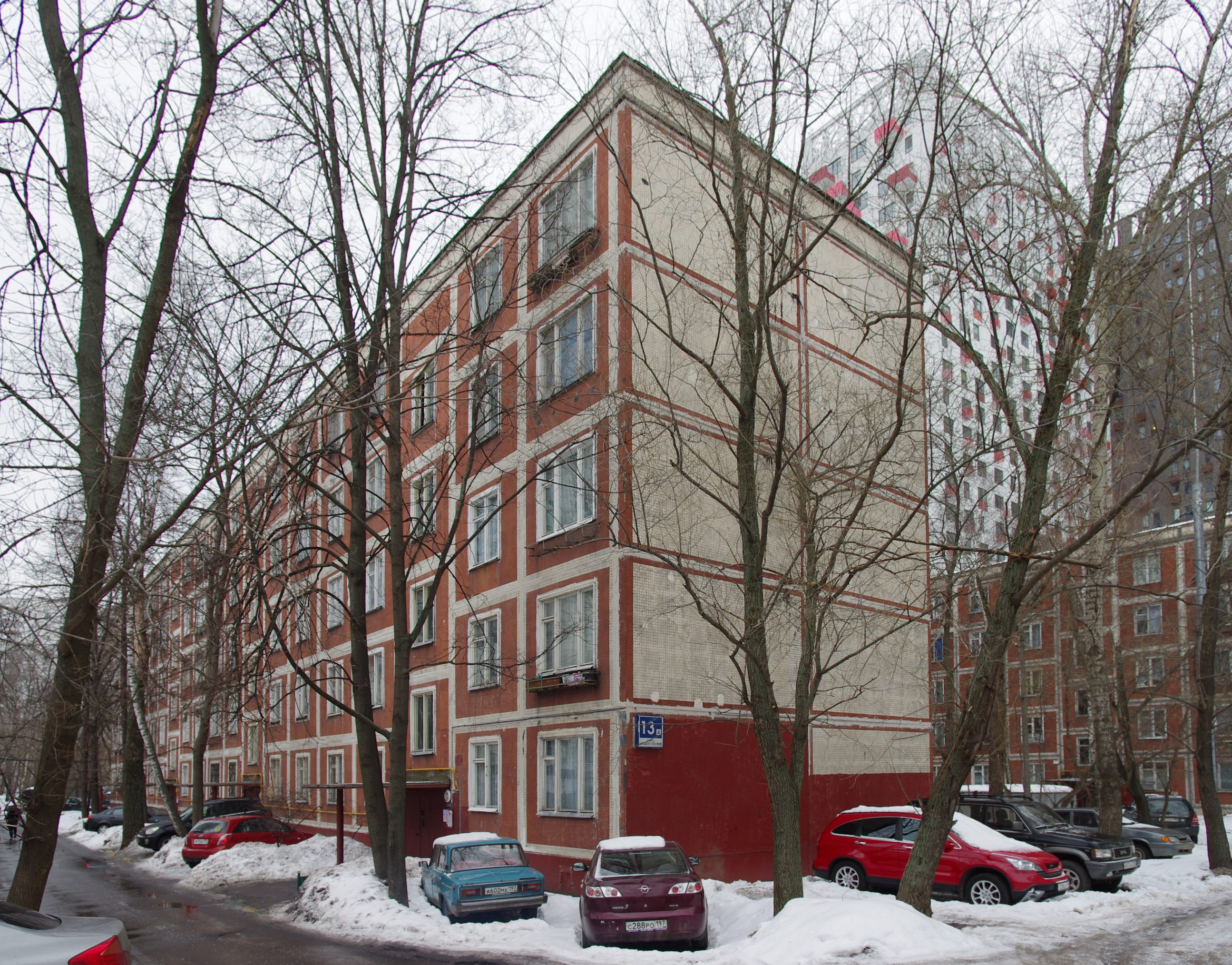 Khoroshevo-Mnevniki District, Moscow, Russia